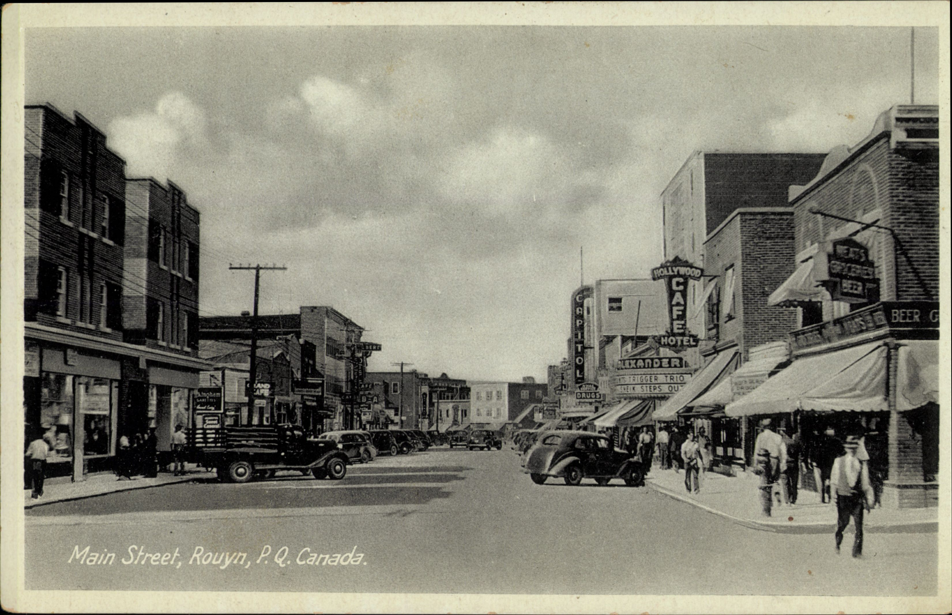 Main Street, Rouyn, P.Q., carte postale, Evans & Bowman